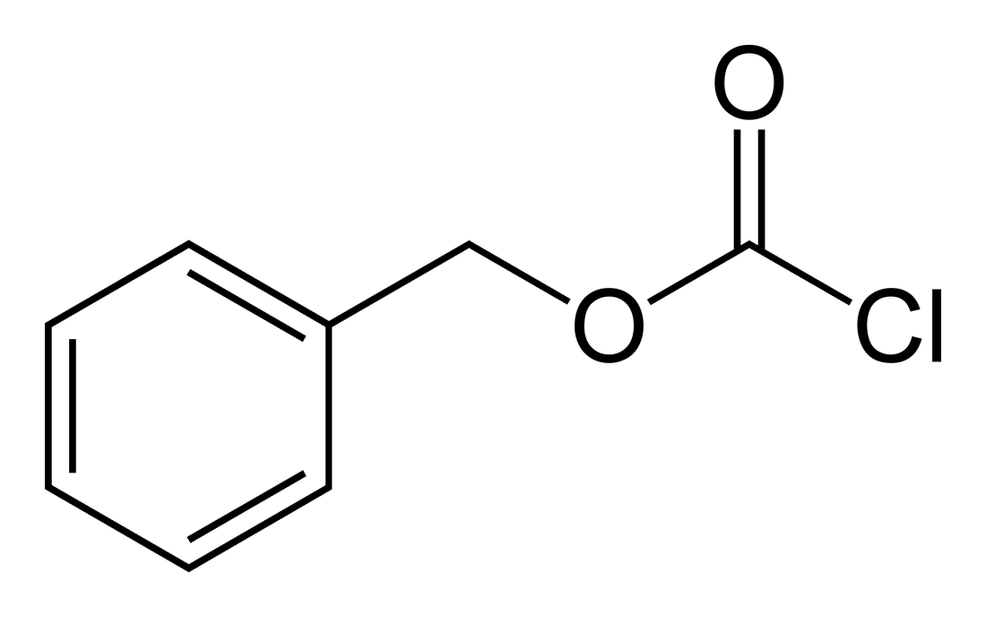 Skeletal formula of benzyl chloroformate